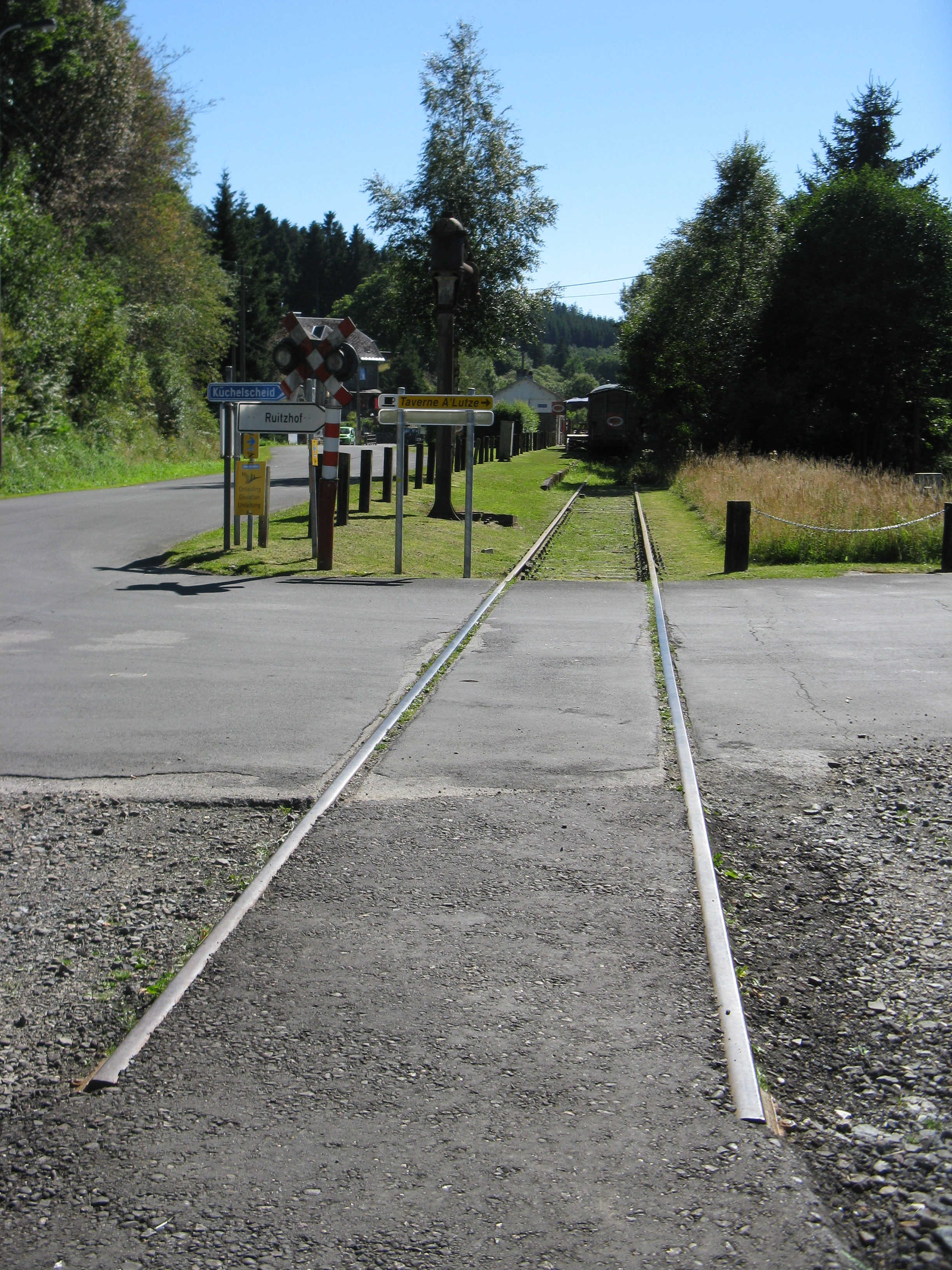 The end of the railway tracks of the former Vennbahn near Kalterherberg station, Eifel region, Germany/Belgium